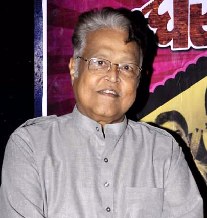 Viju Khote at Premiere of Marathi film 'Kuni Ghar Deta Ghar'